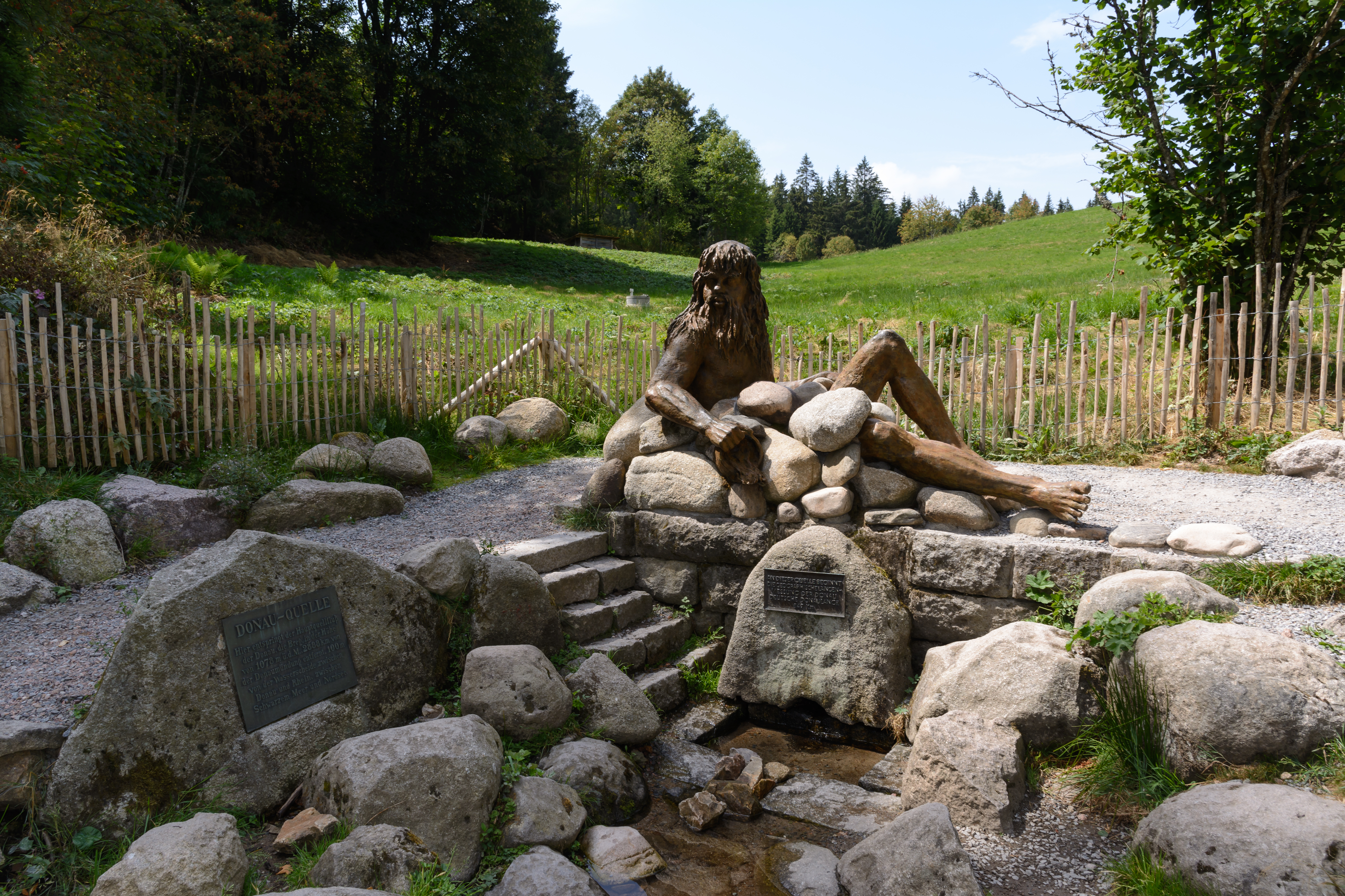 Source of the Breg, municipality of Furtwangen im Schwarzwald, Baden-Württemberg, Germany. This source is also called source of the Danube, as the Breg is the longer of the two formative streams of the Danube. Sculpture of Danuvius, god of Danube river, by Wolfgang Eckert, 2017.